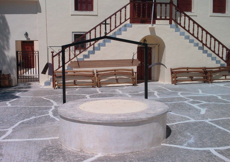 Well inside of Preveli monastery, Crete, Greece